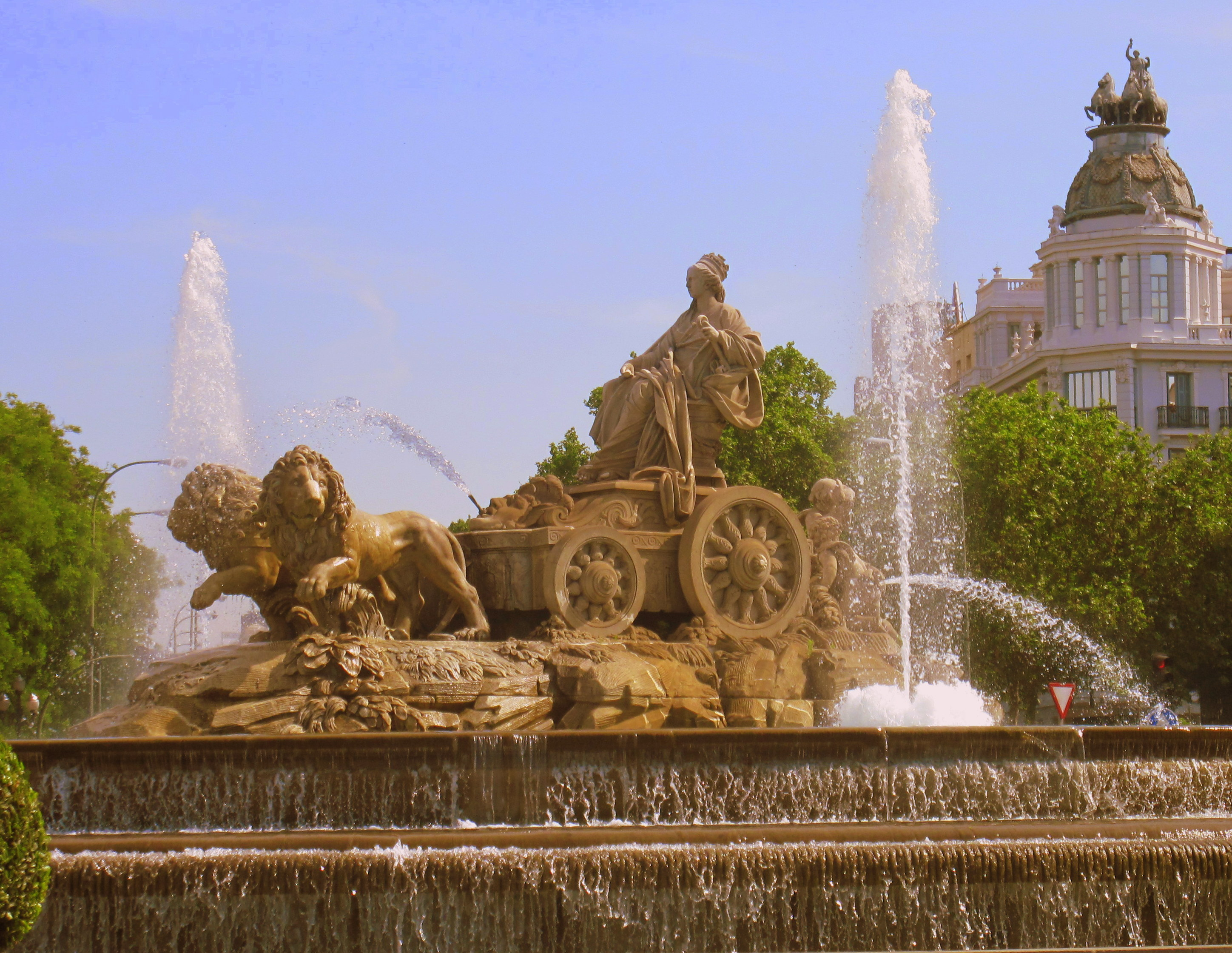 Cybele fountain